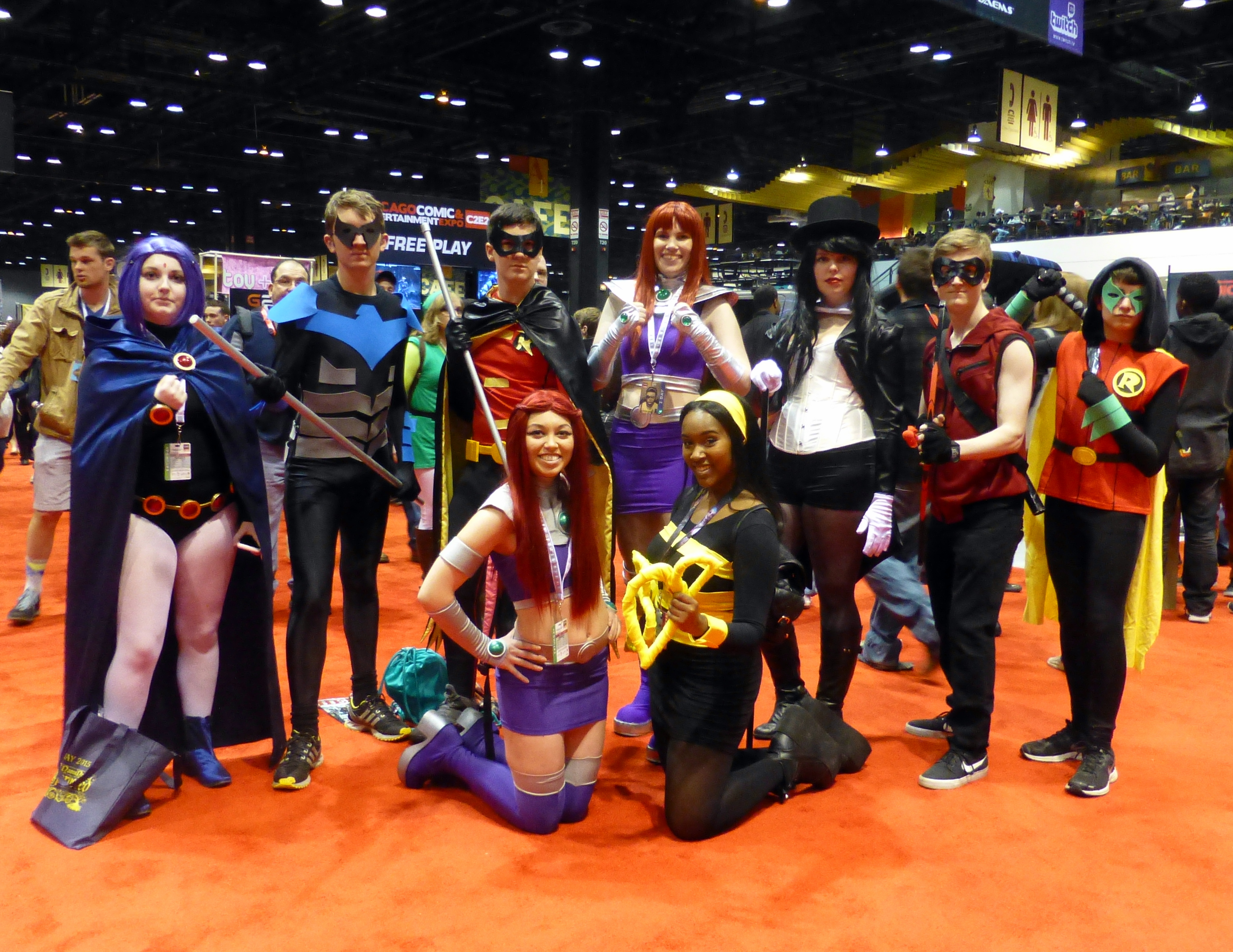 Team of Teen Titans Cosplay at Chicago Comic & Entertainment Expo (C2E2) 2015.